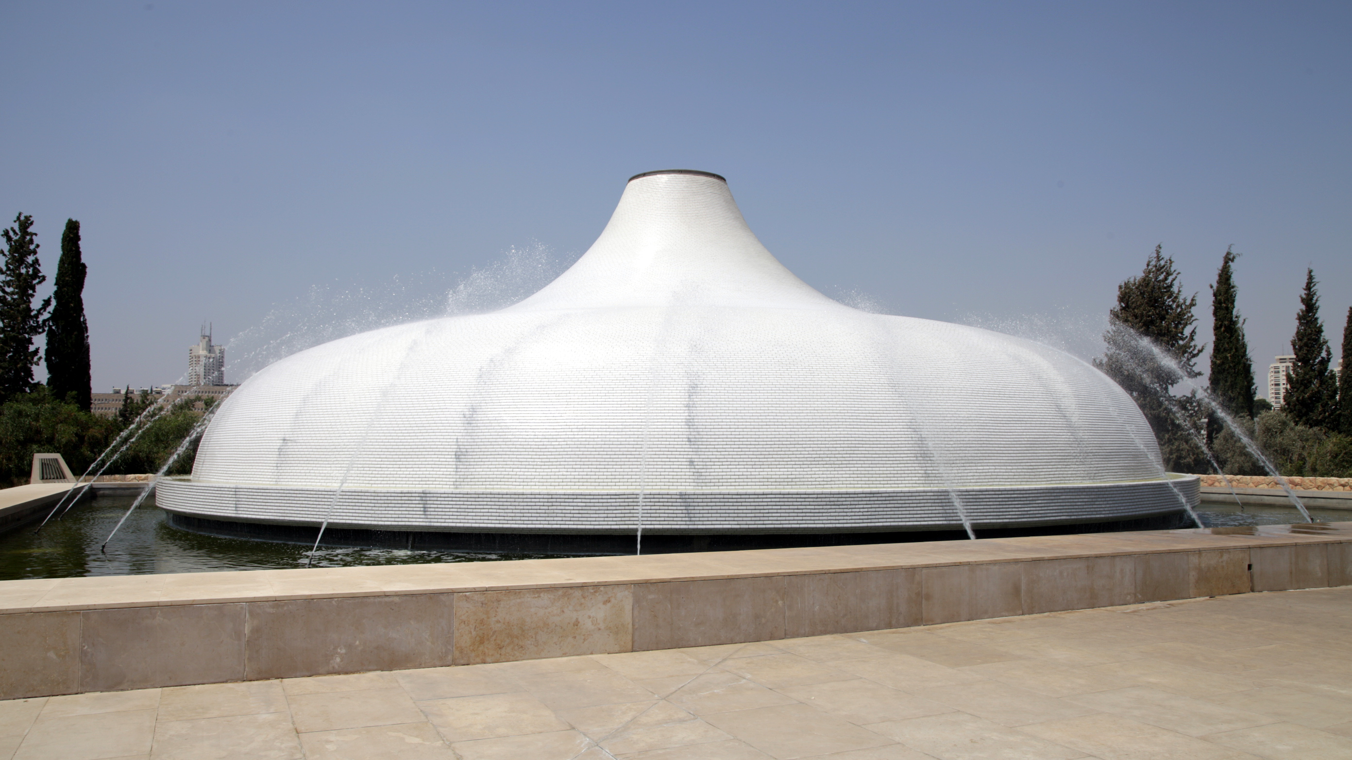 Israel Museum, Jerusalem